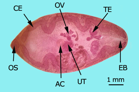 Paragonimus westermani - adult worm OS: oral sucker CE: cecum OV: ovary TE: testes EB: excretory bladder UT: uterus AC: acetabulum (ventral sucker)